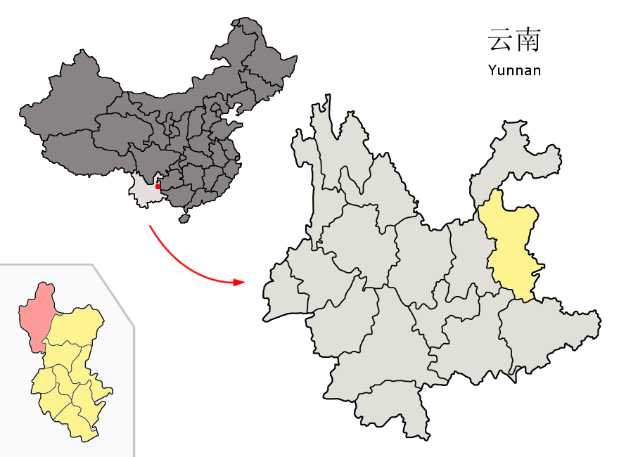 Location of Huize County (pink) and Qujing Prefecture (yellow) within Yunnan province of China Map drawn in september 2007 using various sources, mainly : Yunnan province administrative regions GIS data: 1:1M, County level, 1990 Yunnan Counties map from